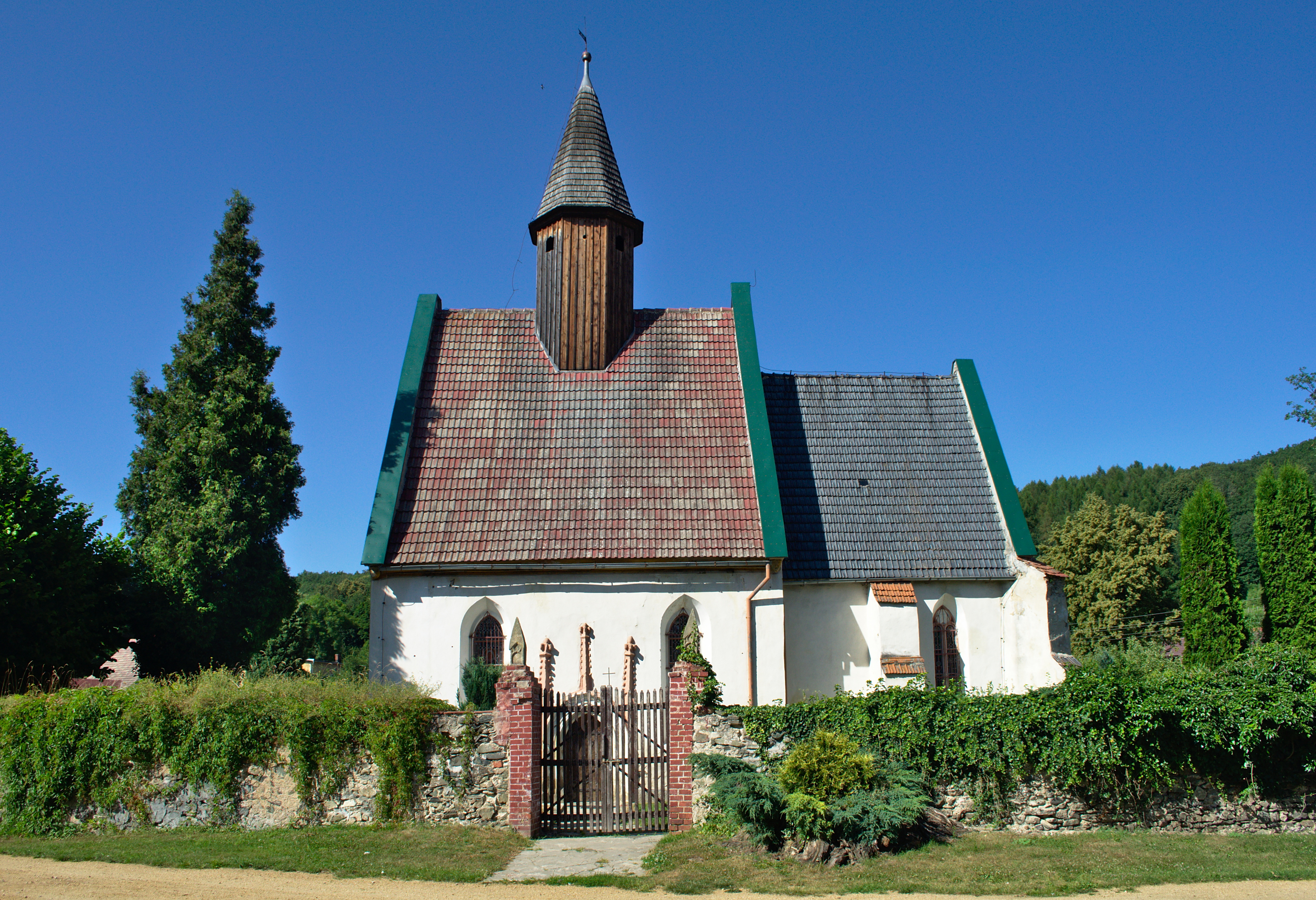 Church in Grobla